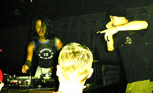 Jordana and MC Collaborator Technorganic Promo